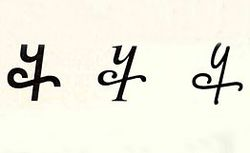 Antique Russian Rouble sign from manuscripts of XVII century.